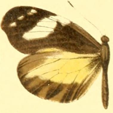 Plate from The Macrolepidoptera of the World. Vol. 5. Pieridae Dismorphiinae: Dismorphia zaela